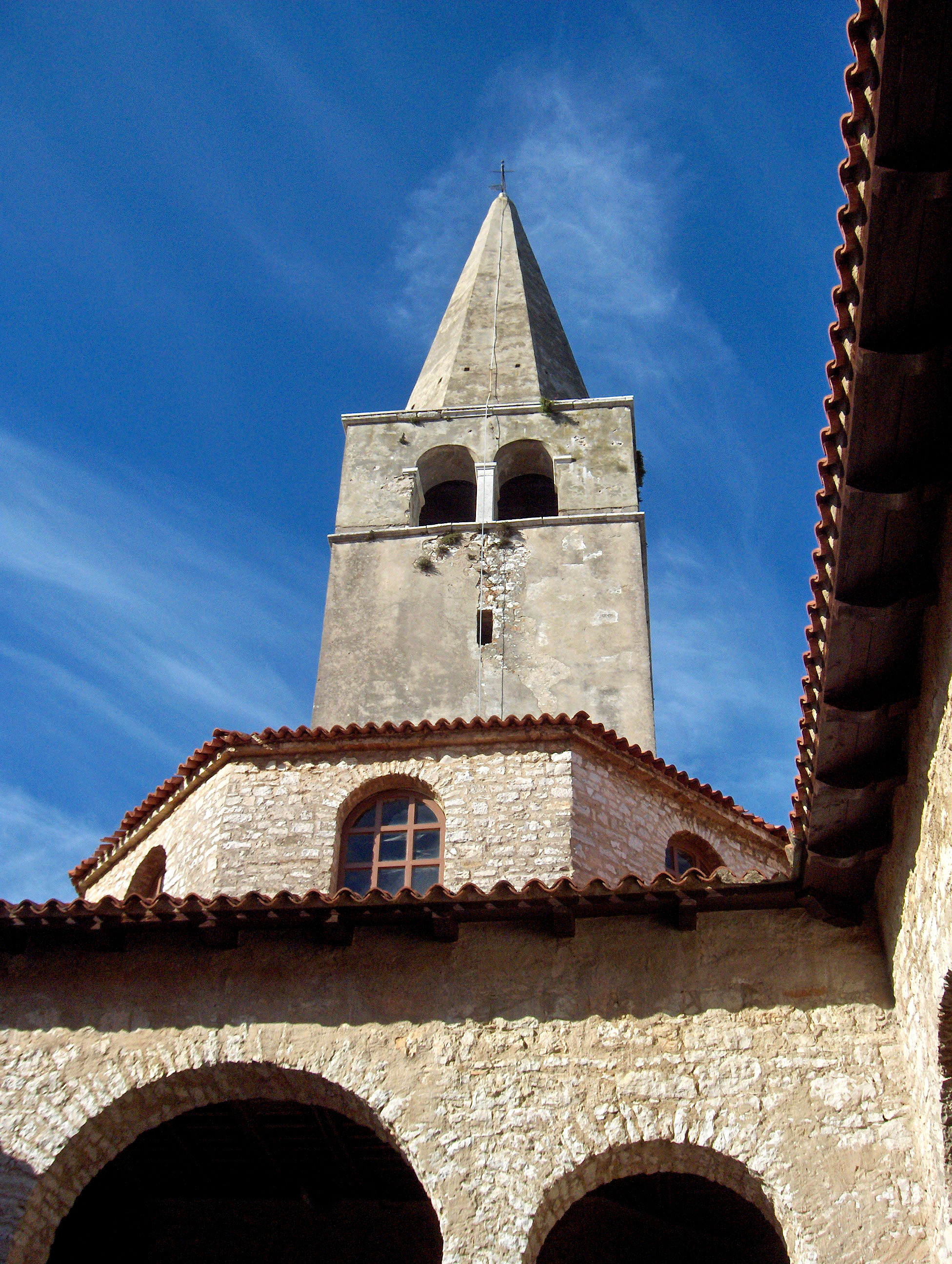 Atrium, baptistery and bell tower of the St. Euphrasius basilica, Poreć, Croatia